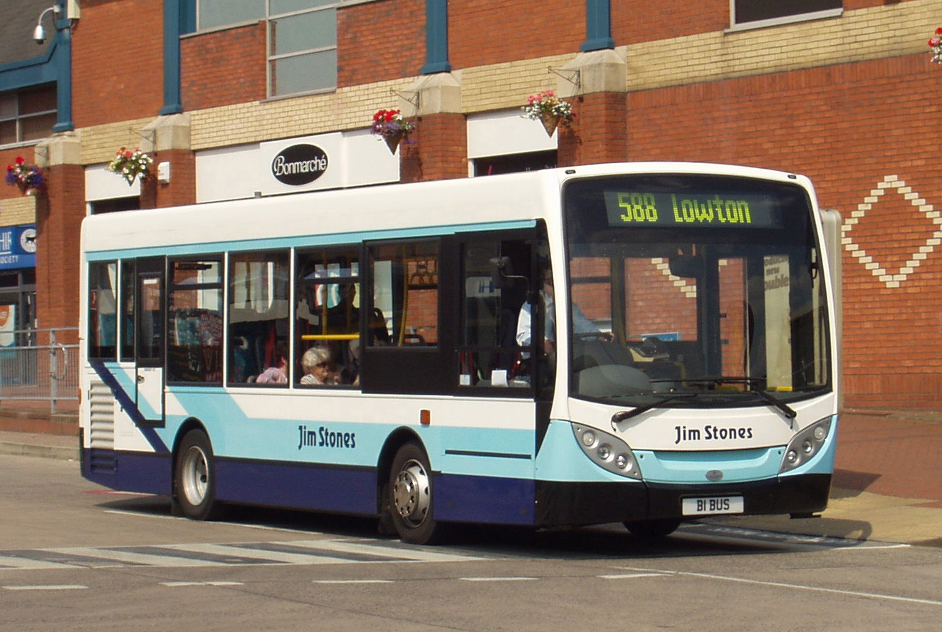 Jim Stones Enviro200 Dart B1 BUS in Leigh Bus Station